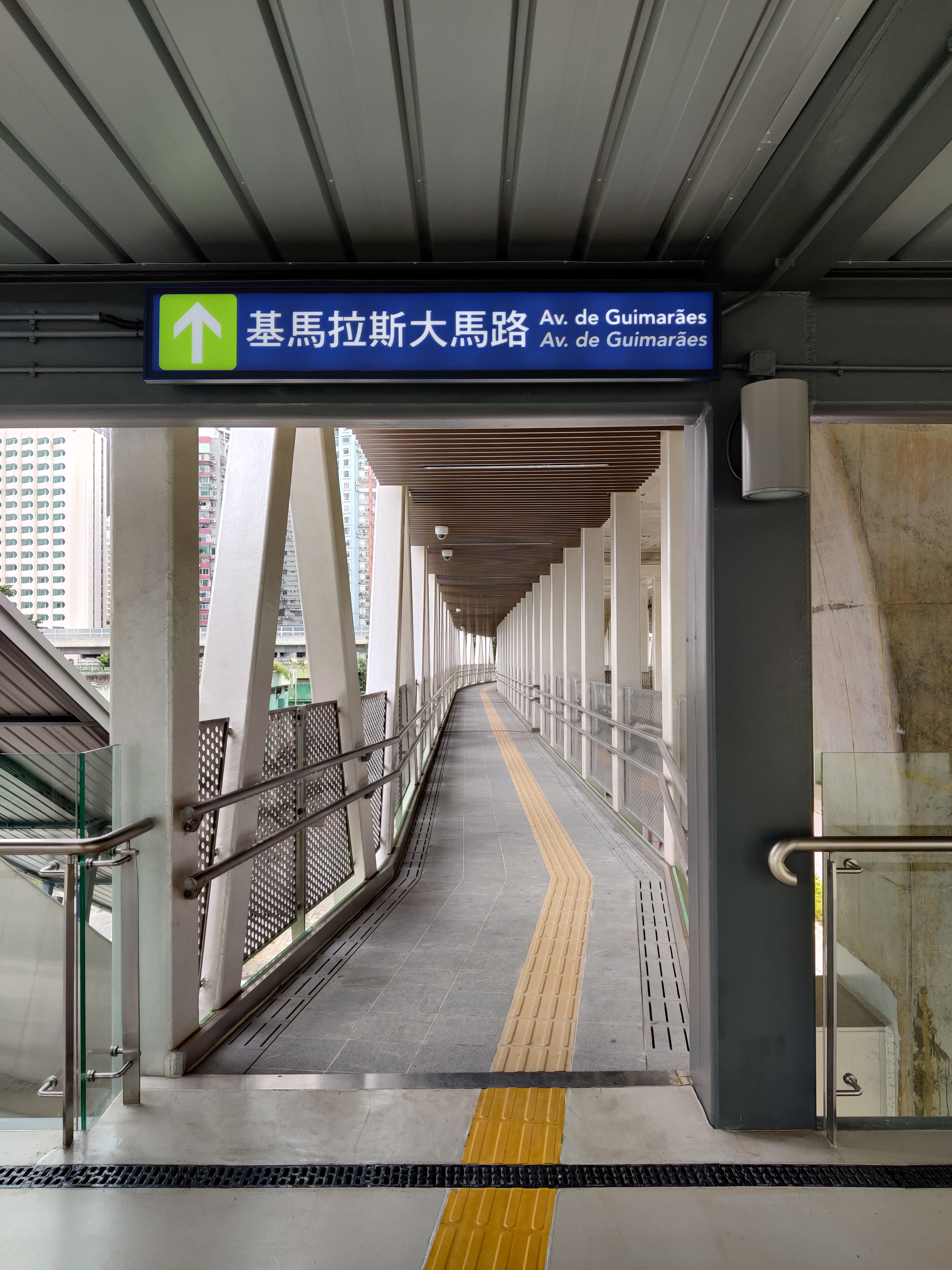 Footbridge from Stadium Station (Macau LRT) to Avenida de Guimaraes 中文（香港）: 澳門輕軌氹仔線運動場站通往基馬拉斯大馬路的行人天橋